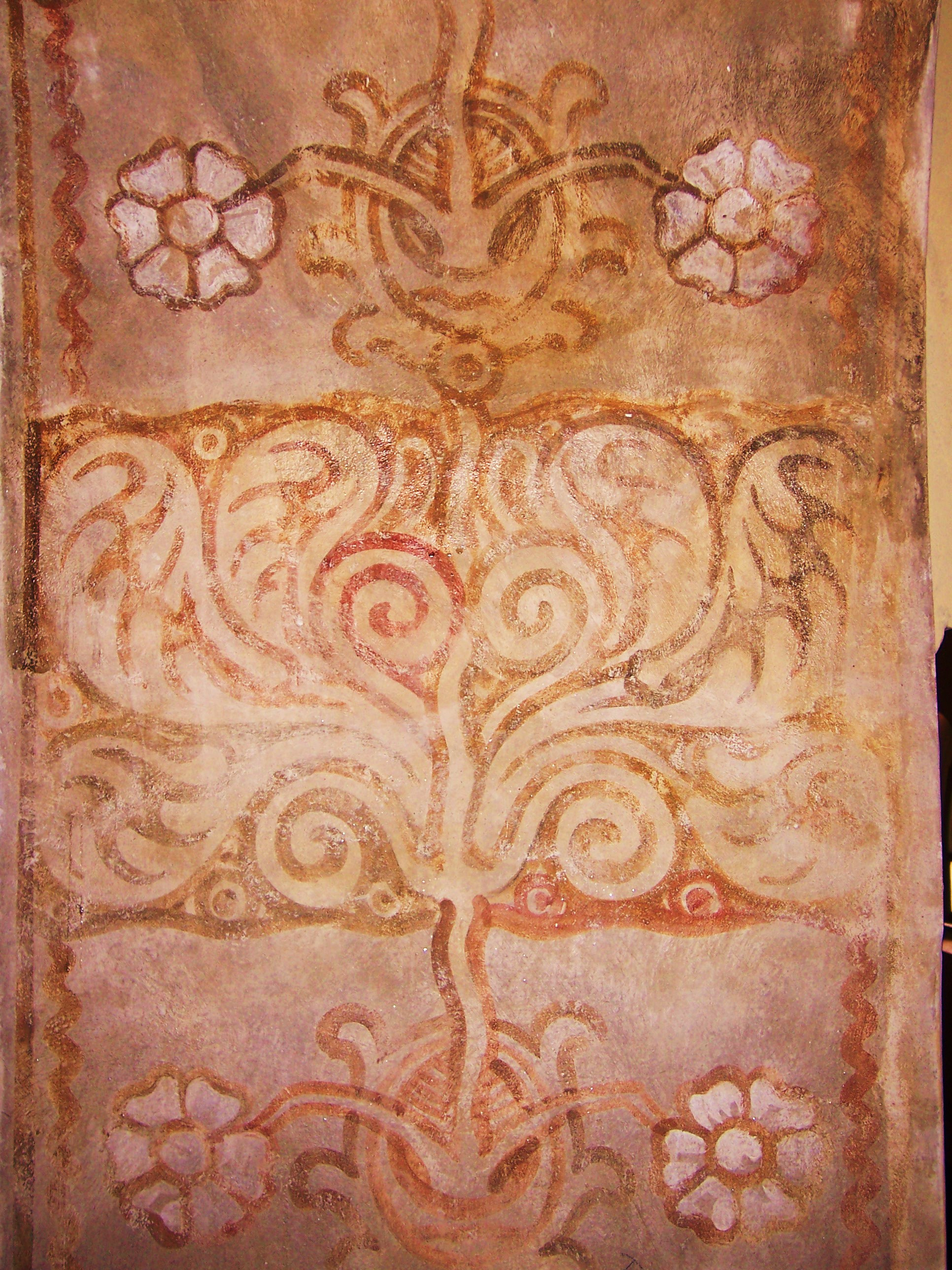 Detail of the exposed "Jugendstilausmalung" the artist Rudolf and Otto Linnemann